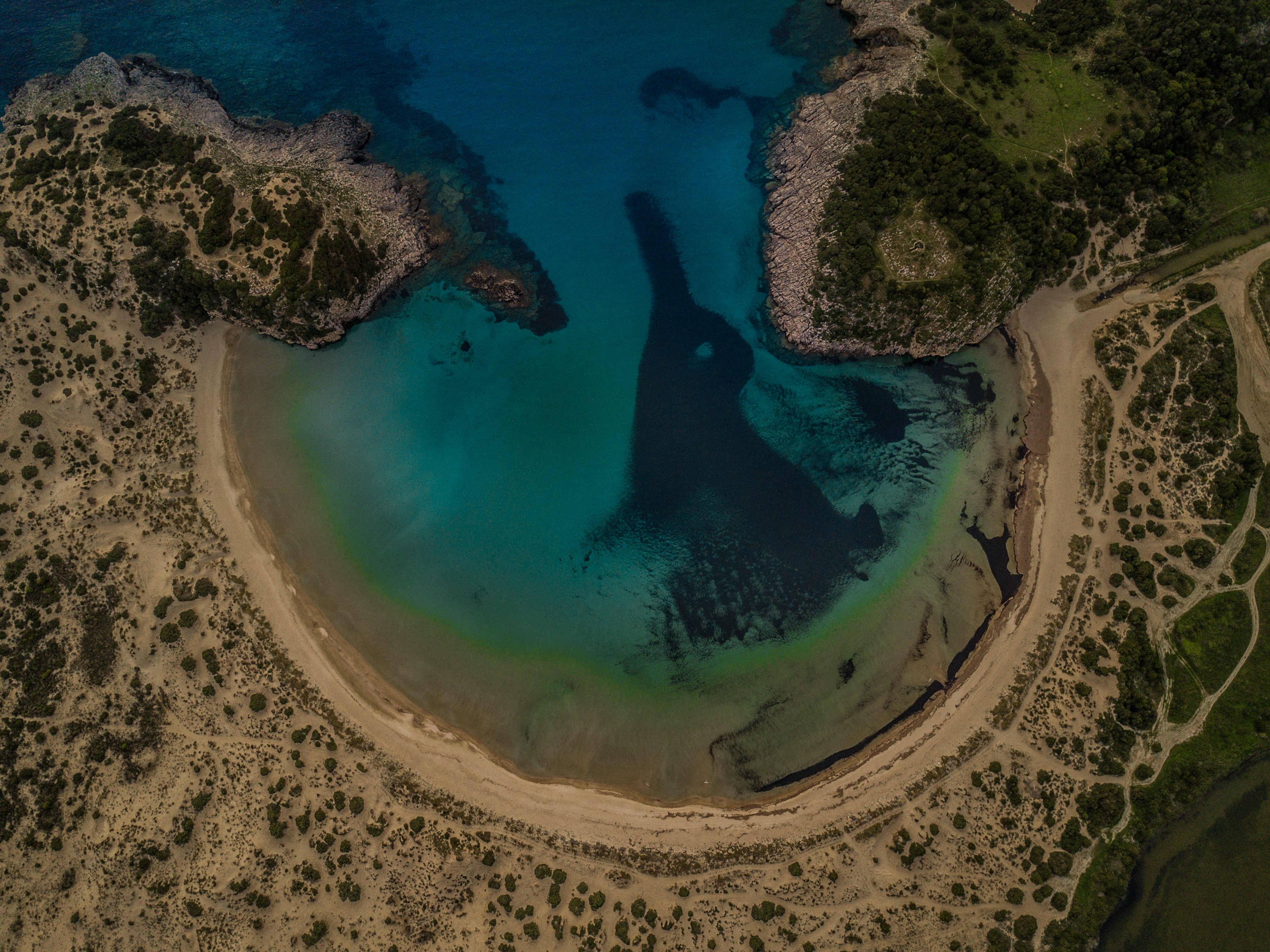 Air view of Voidokilia Beach in Messinia This is a photography of Natura 2000 protected area with ID GR2550004